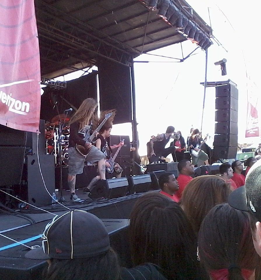 Suicide SIlence performing at 2011's Extreme Thing festival music festival held in Las Vegas, NV.